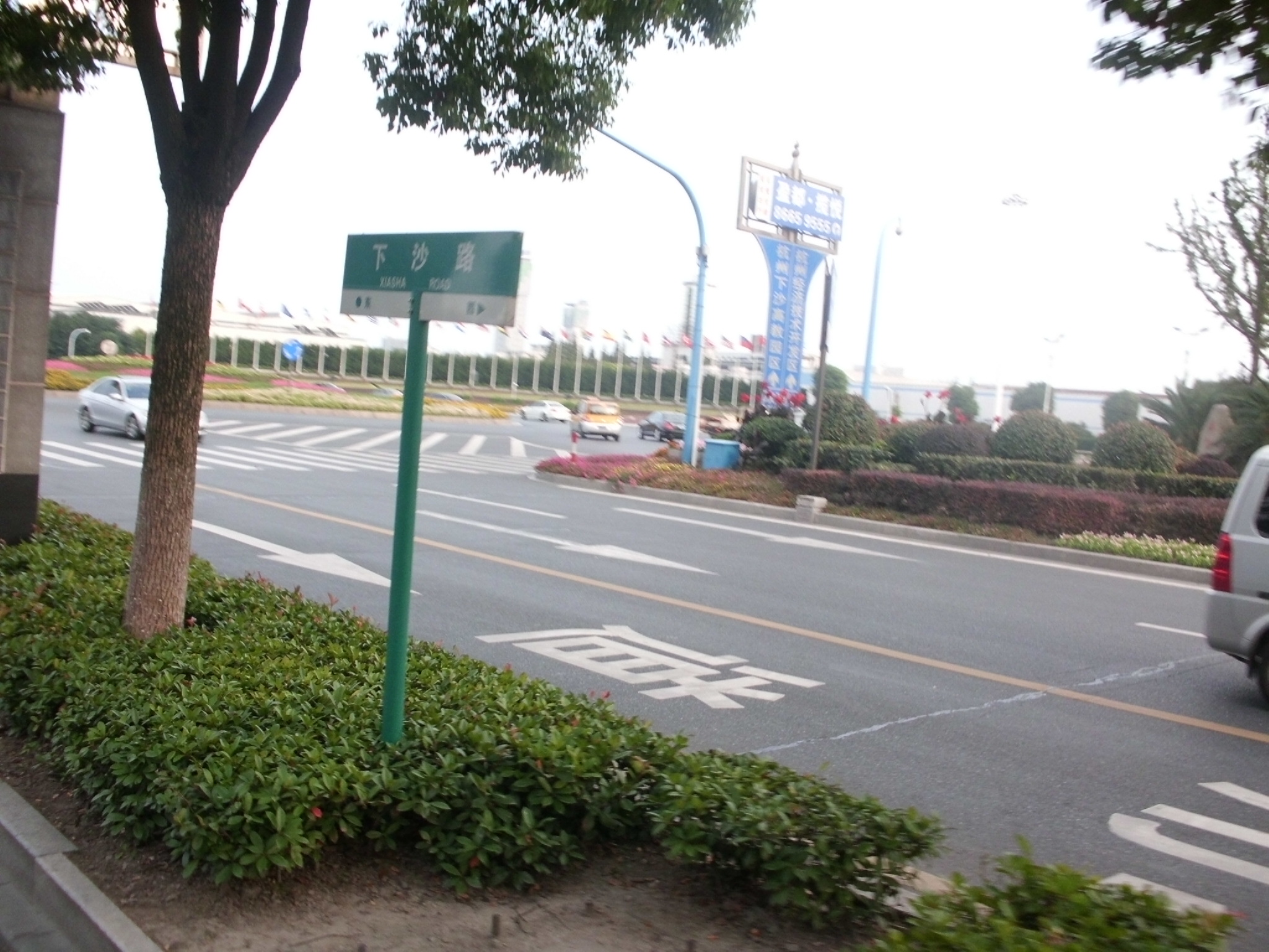 the main entrance to Hangzhou Economic and Technological Development Area